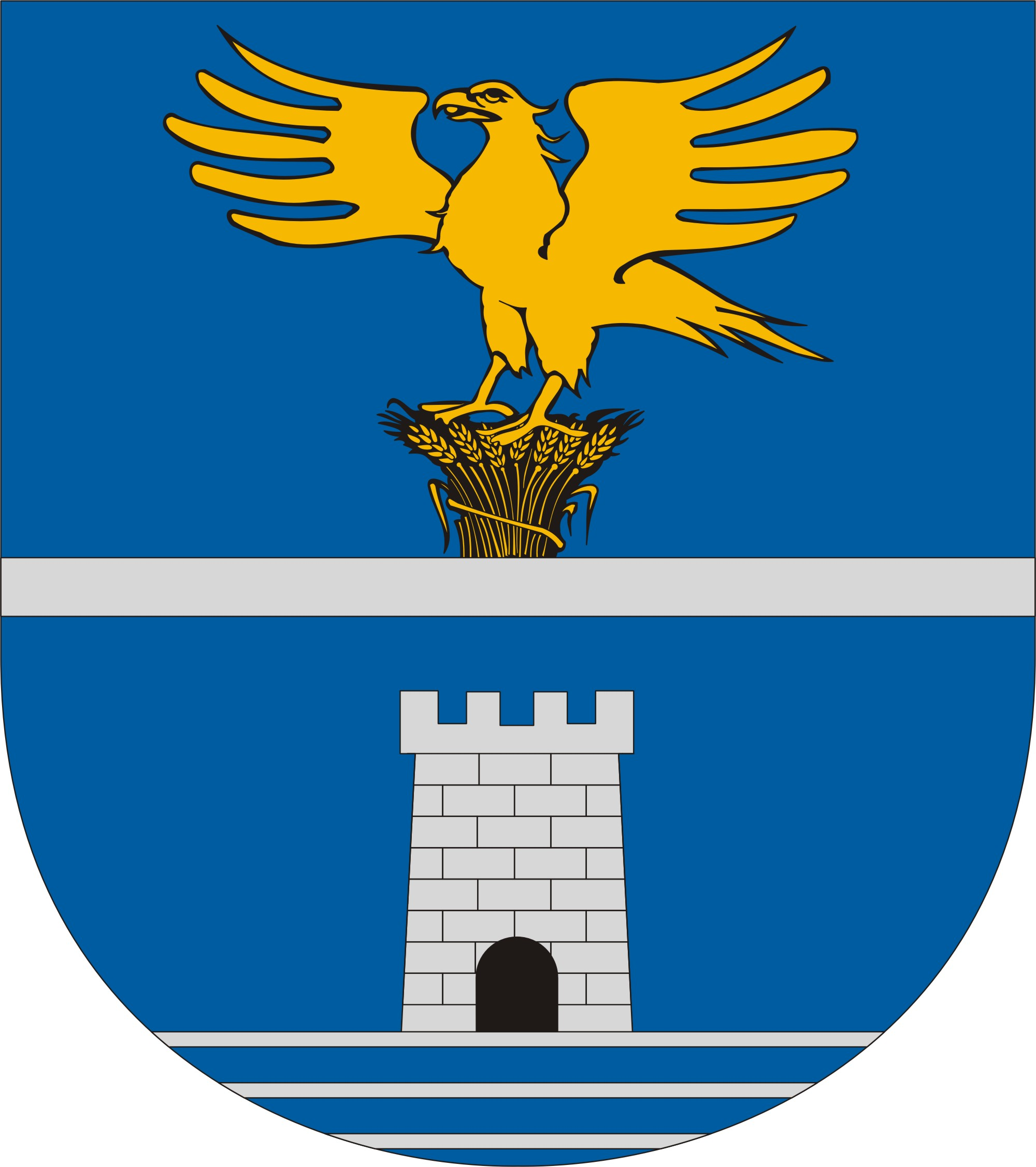 Coat of arms of Zalakomár, Hungary